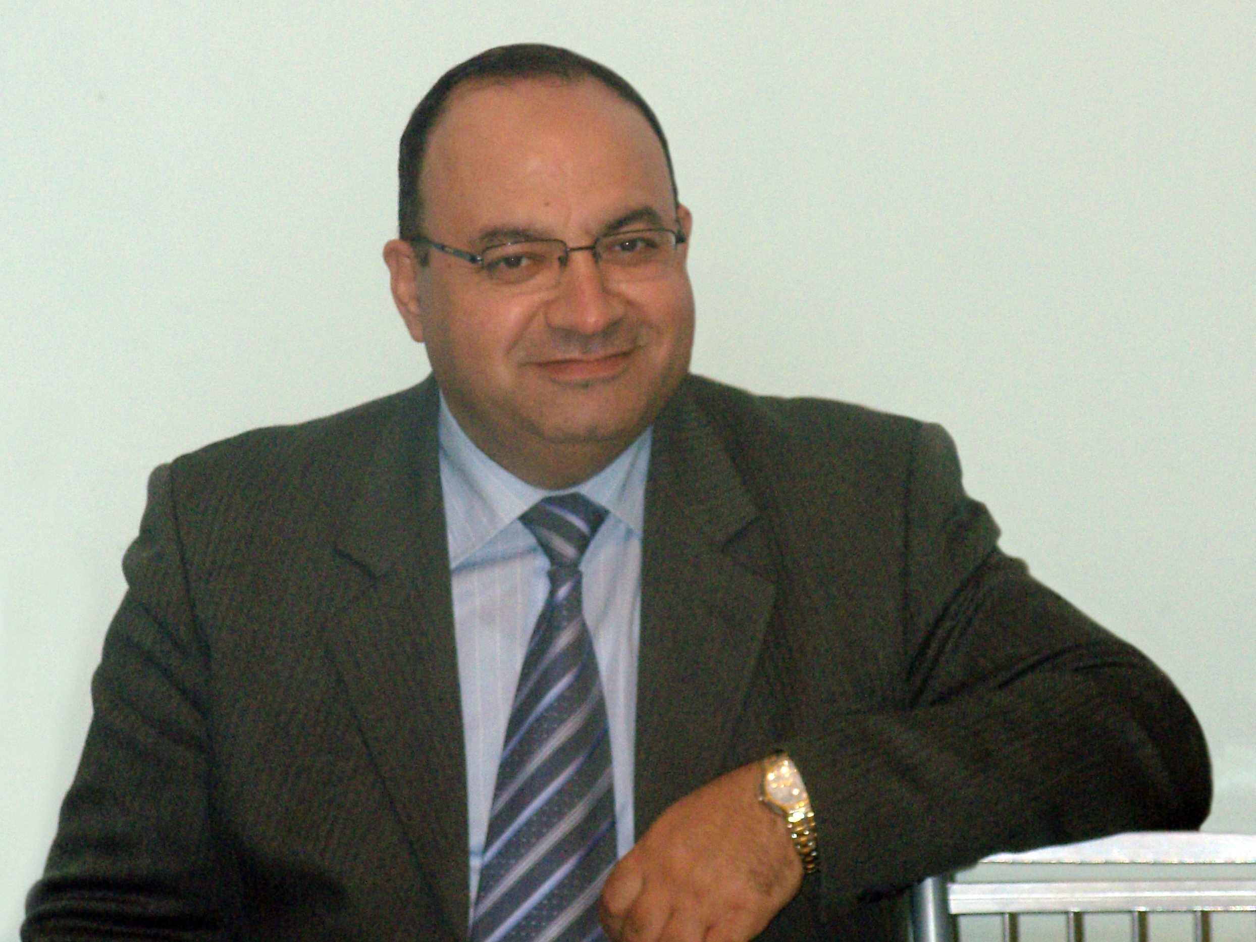 Jabir Khalilov